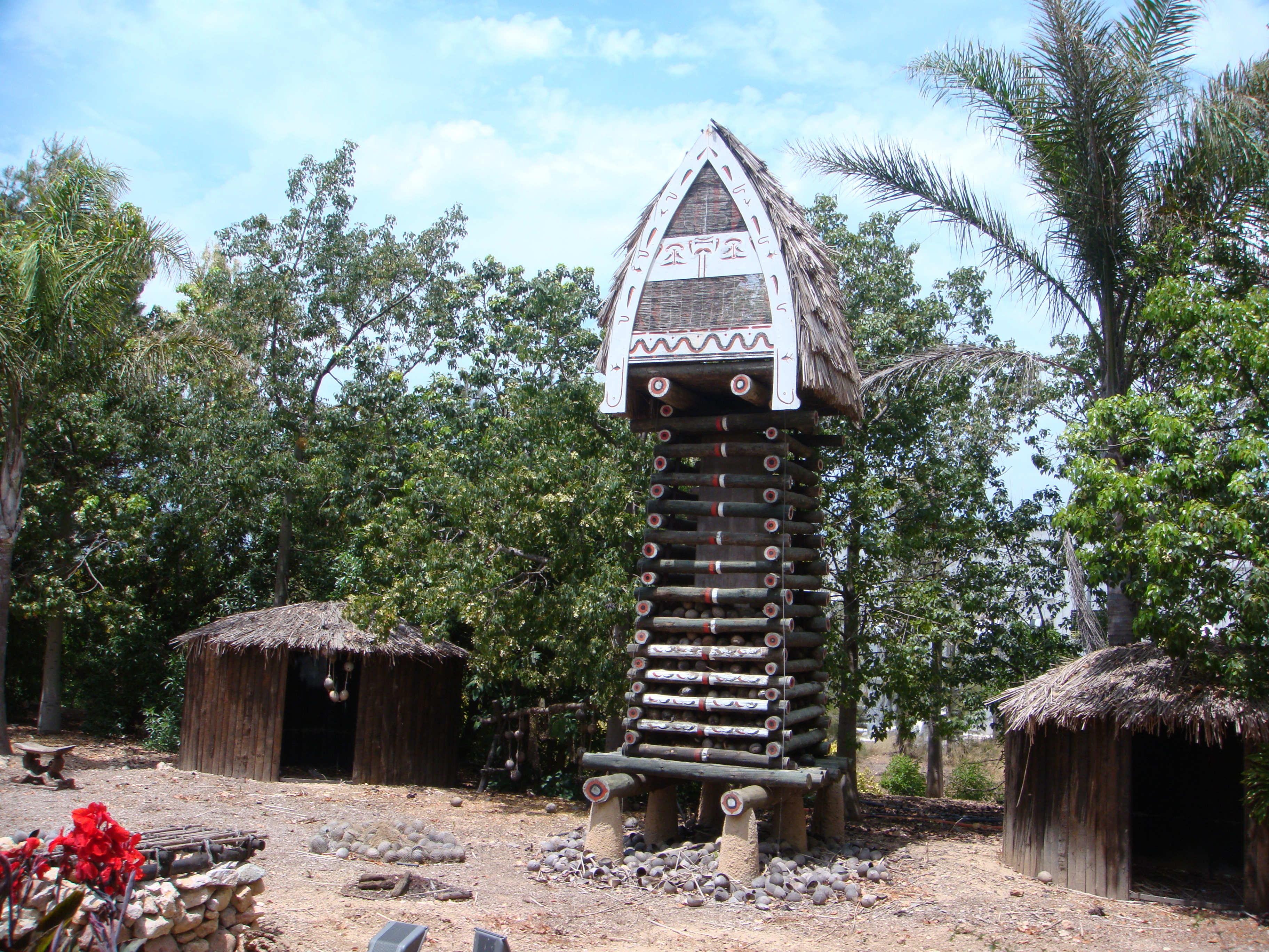 Hide Town.